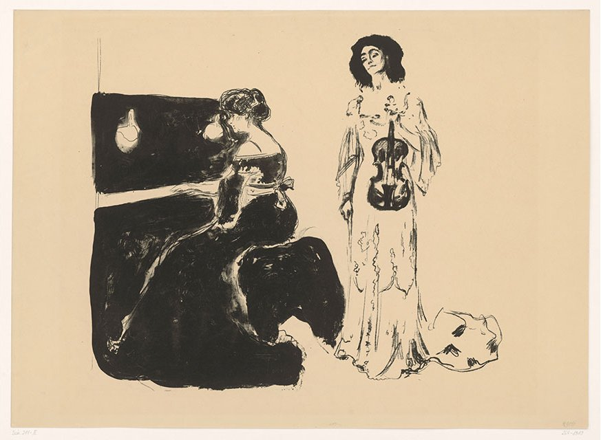 Violin Concert by Edvard Munch, 1903, lithograph, 55.4 x 76.4 cm, Kupferstichkabinett, Berlin State Museums